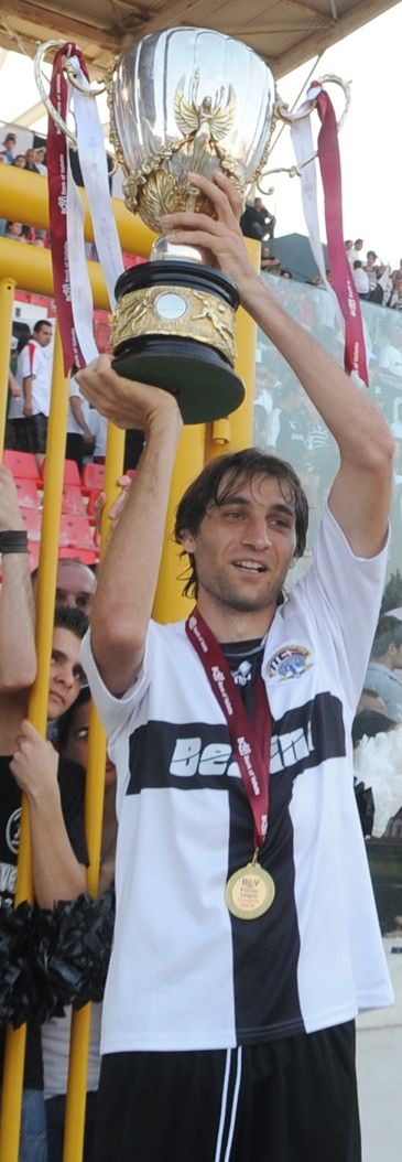 Rumen Galabov holding the Malta Champions Cup of the 2008/2009 season in front of Hibs supporters.